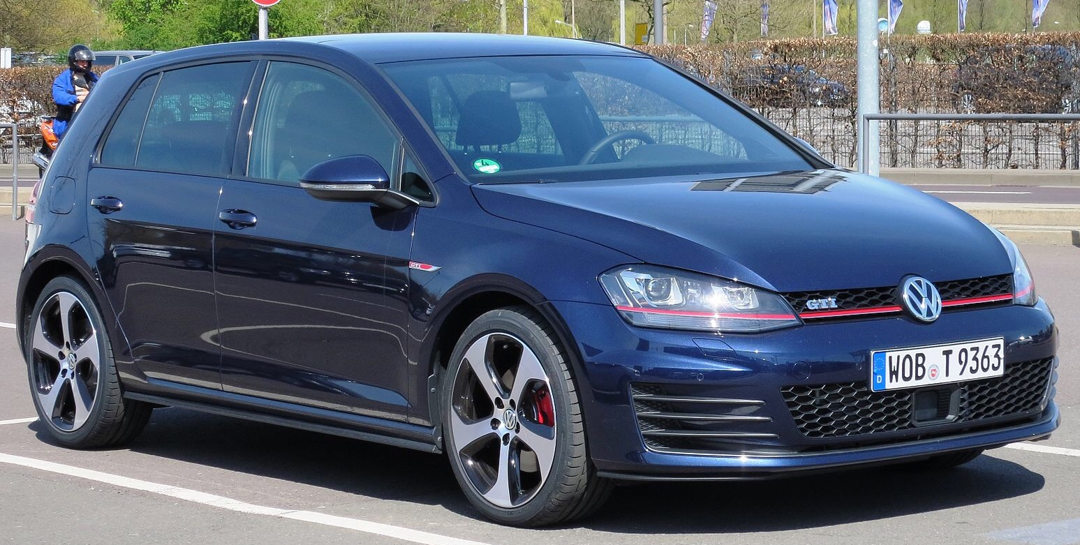 Volkswagen Golf VII GTI in Wolfsburg